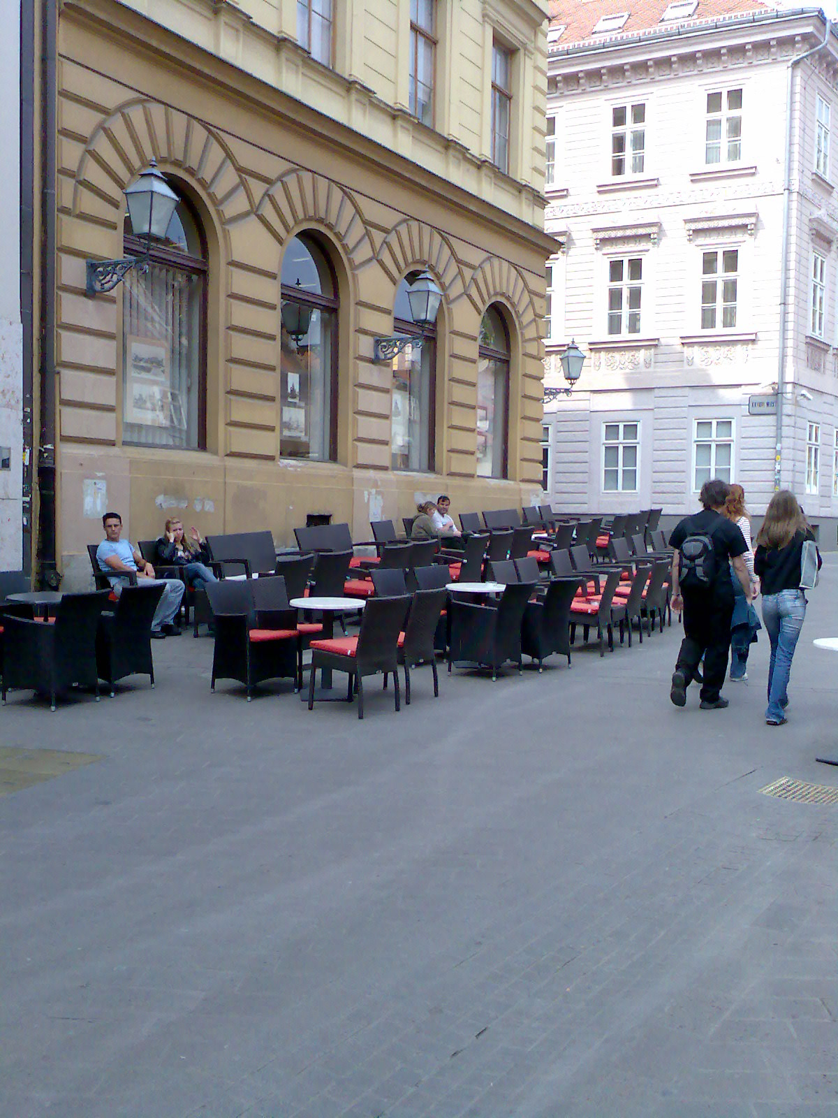 The intersection of the streets Tkalčićeva and Krvavi most (Bloody Bridge Street), Zagreb.